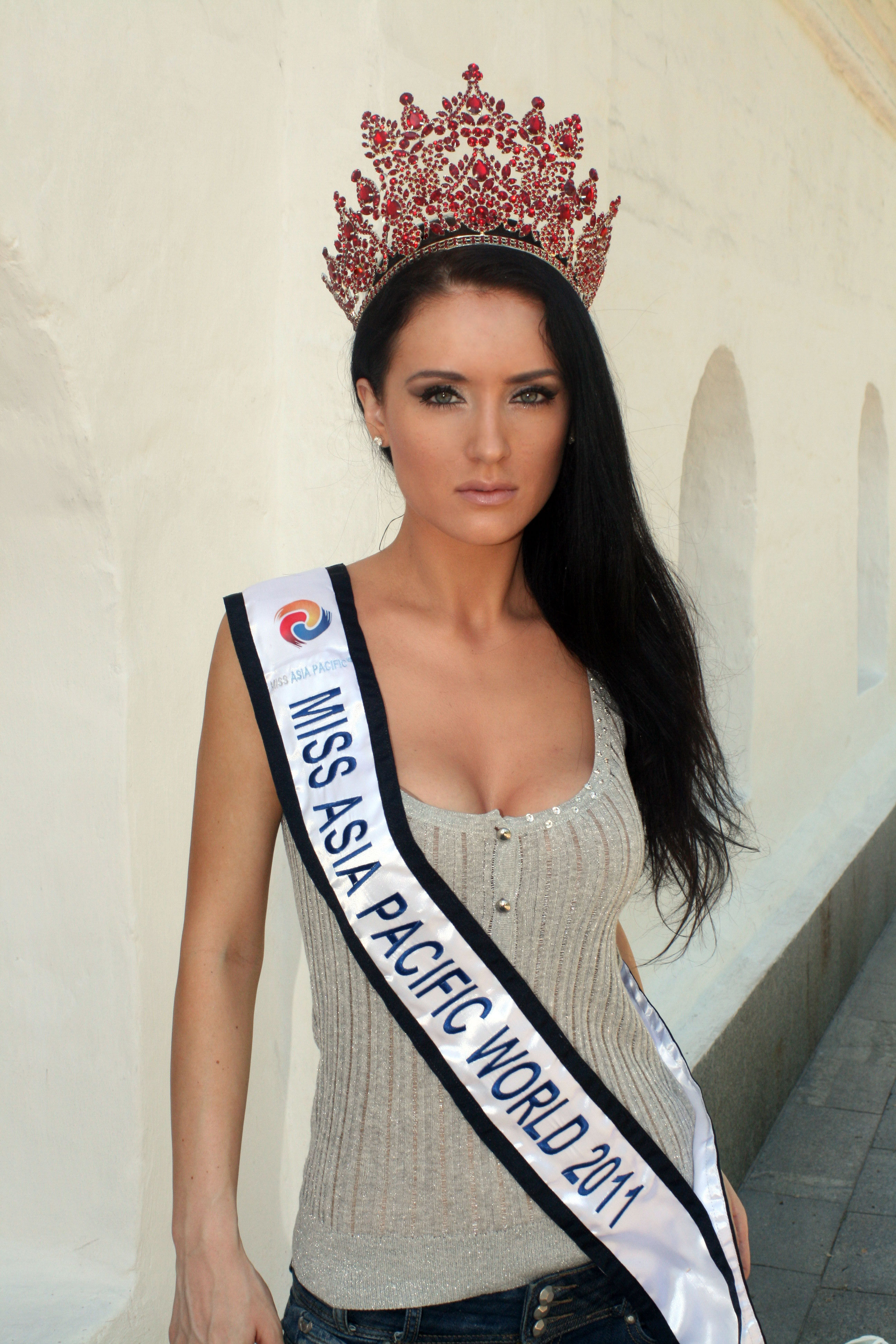 On May 12 a Ukrainian supermodel Diana Starkova was crowned as new Miss Asia Pacific Word 2011 Queen. She replaced dethroned Florima Treiber from France. Diana wears new crown from Italy, which cost 60 000 dollars.